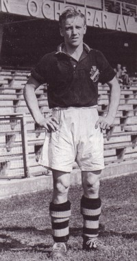 Swedish footballer Henry "Garvis" Carlsson, playing for AIK.